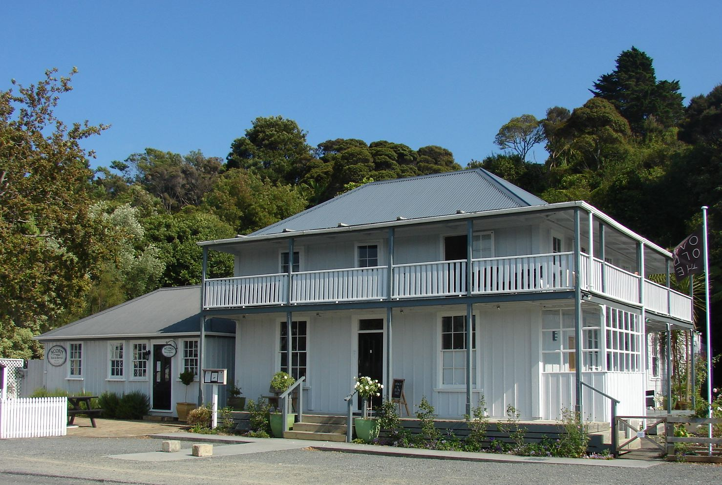 New Zealand Heritage Building of 1861